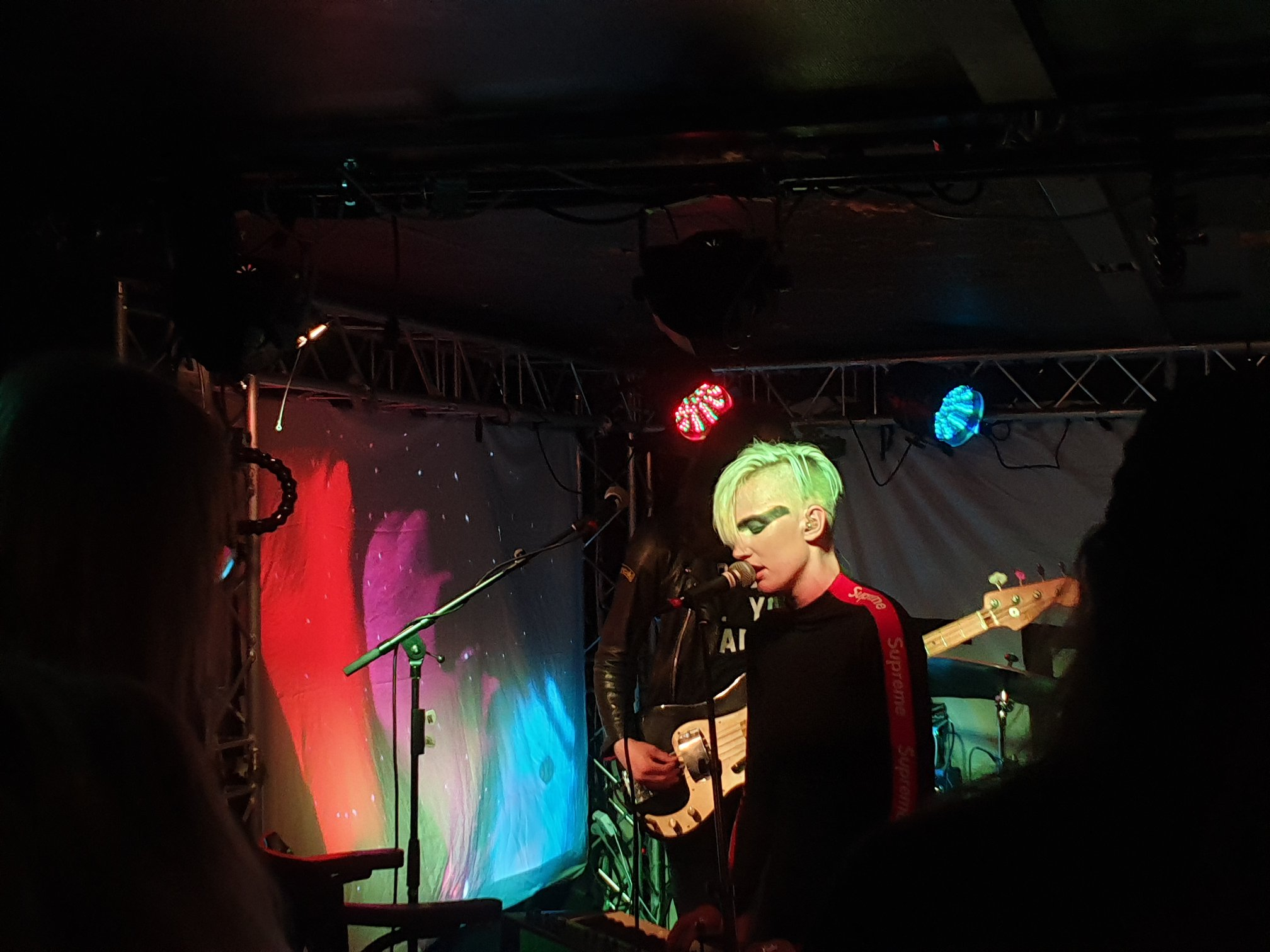 Swedish band, Felin, performing at Subkultfestivalen 2019